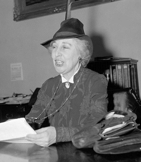 Jeanette Rankin, first woman member of Congress, told the Naval Affairs Committee for the House today that there is 'much technical opinion within the Navy Department against the fortification of Guam as there is for it', and that the reason that the committee had not heard such opinions is because, 'announcements of policy come only from the top.' Miss Rankin voted against U.S. entrance into the World War, 2-7-39